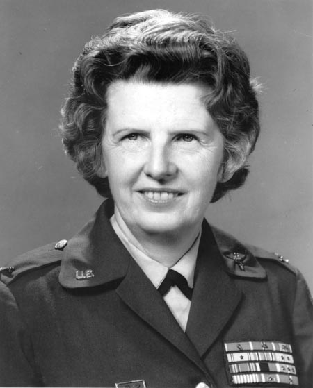 Ruby G. Bradley, Colonel, U.S. Army Nurse Corps Director, Nursing activities, Brooke Army Medical Center, Fort Sam Houston, Texas